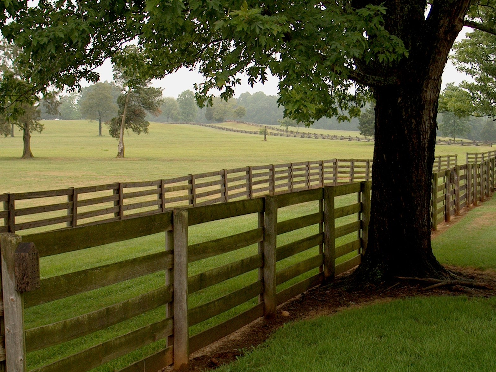 Fields in Appomattox County